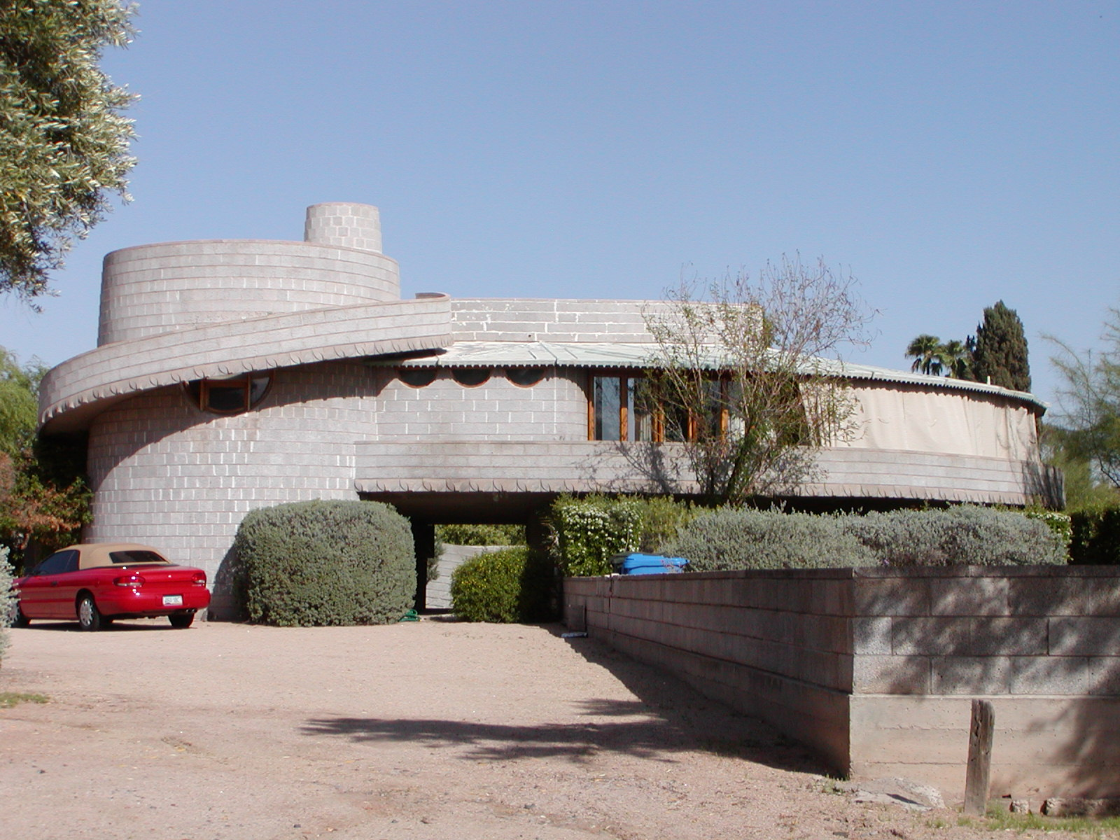 David Wright House, Phoenix, Arizona, photo by Walt Lockley